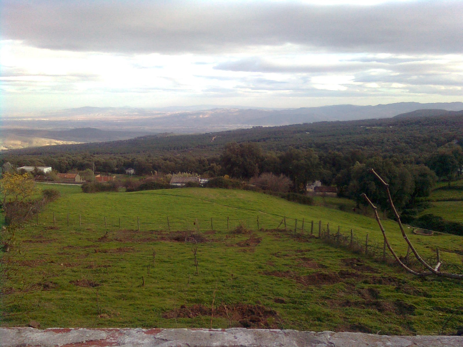 East of Ain Soltan, village northern Ghardimaou, Tunisia.